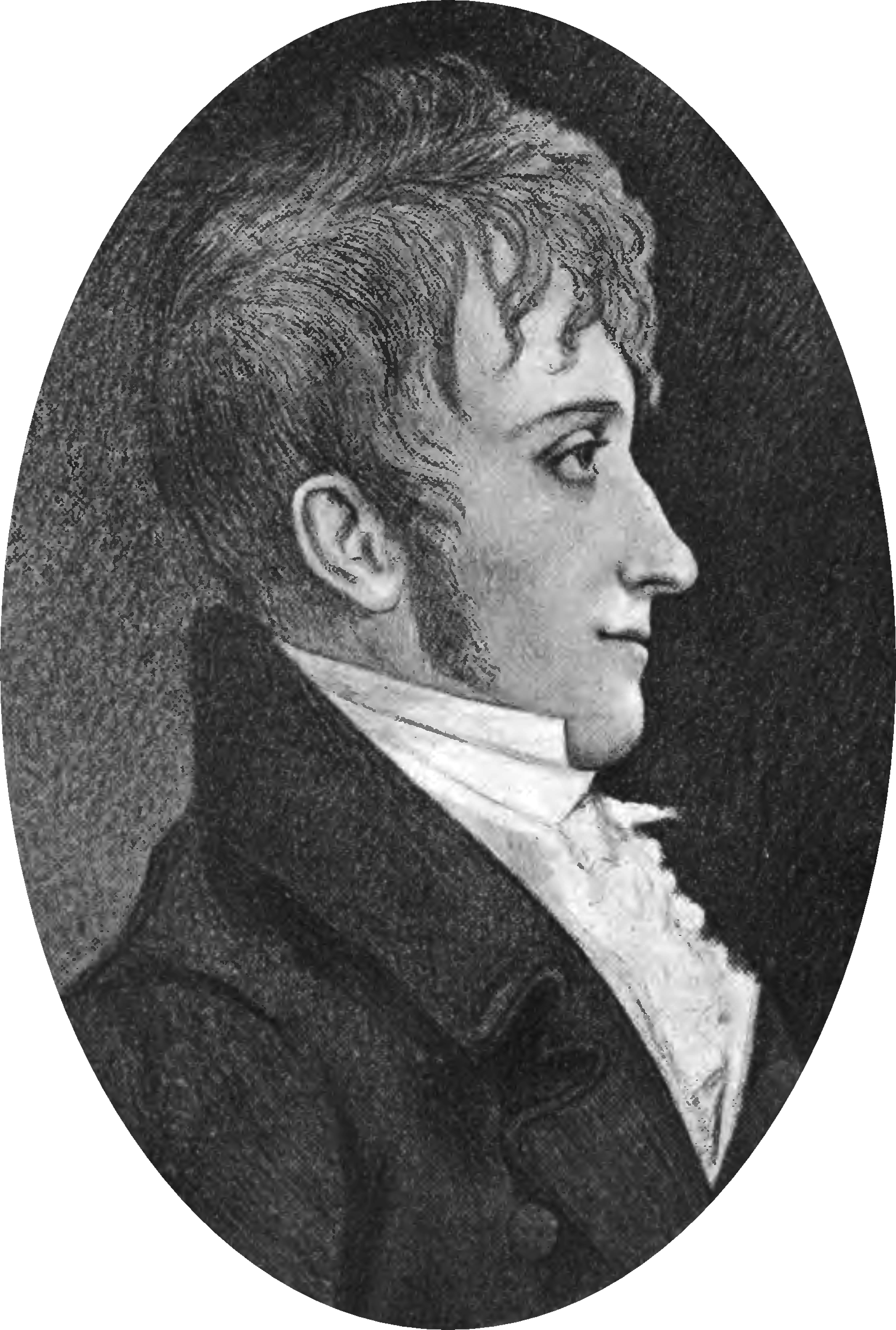 Franciszek Barss